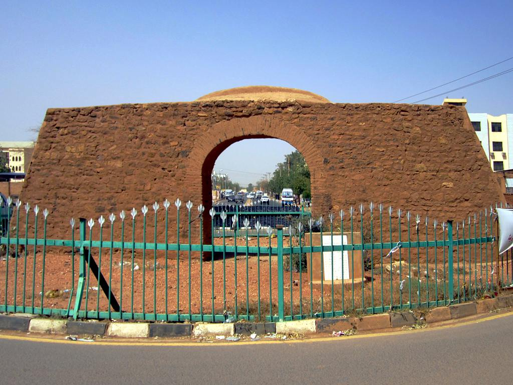 Bab al Abdel Gaoum was the southern gate to the late 19th century Mahdist capital of Omdurman, Sudan.